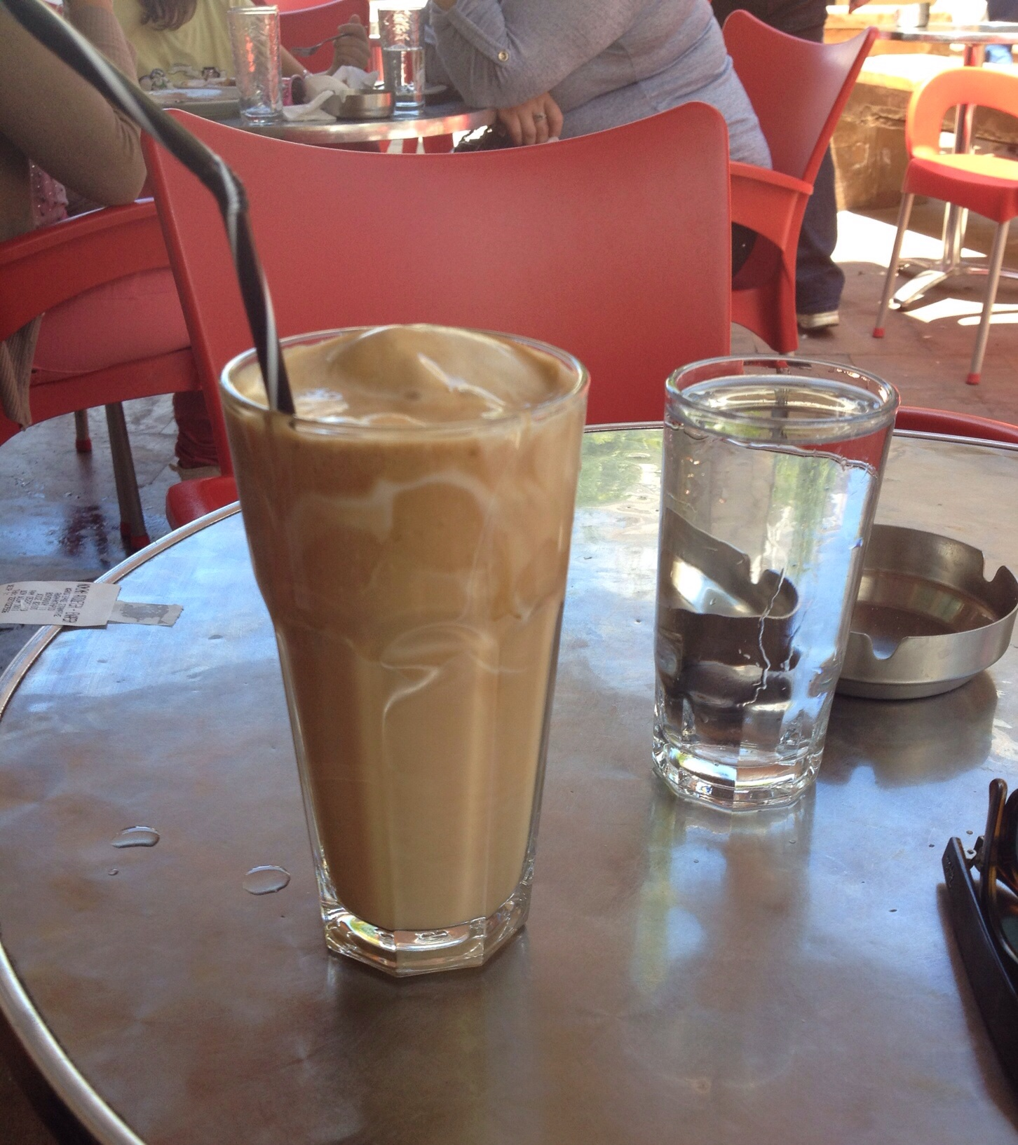 "Frappe" Greek Iced coffee